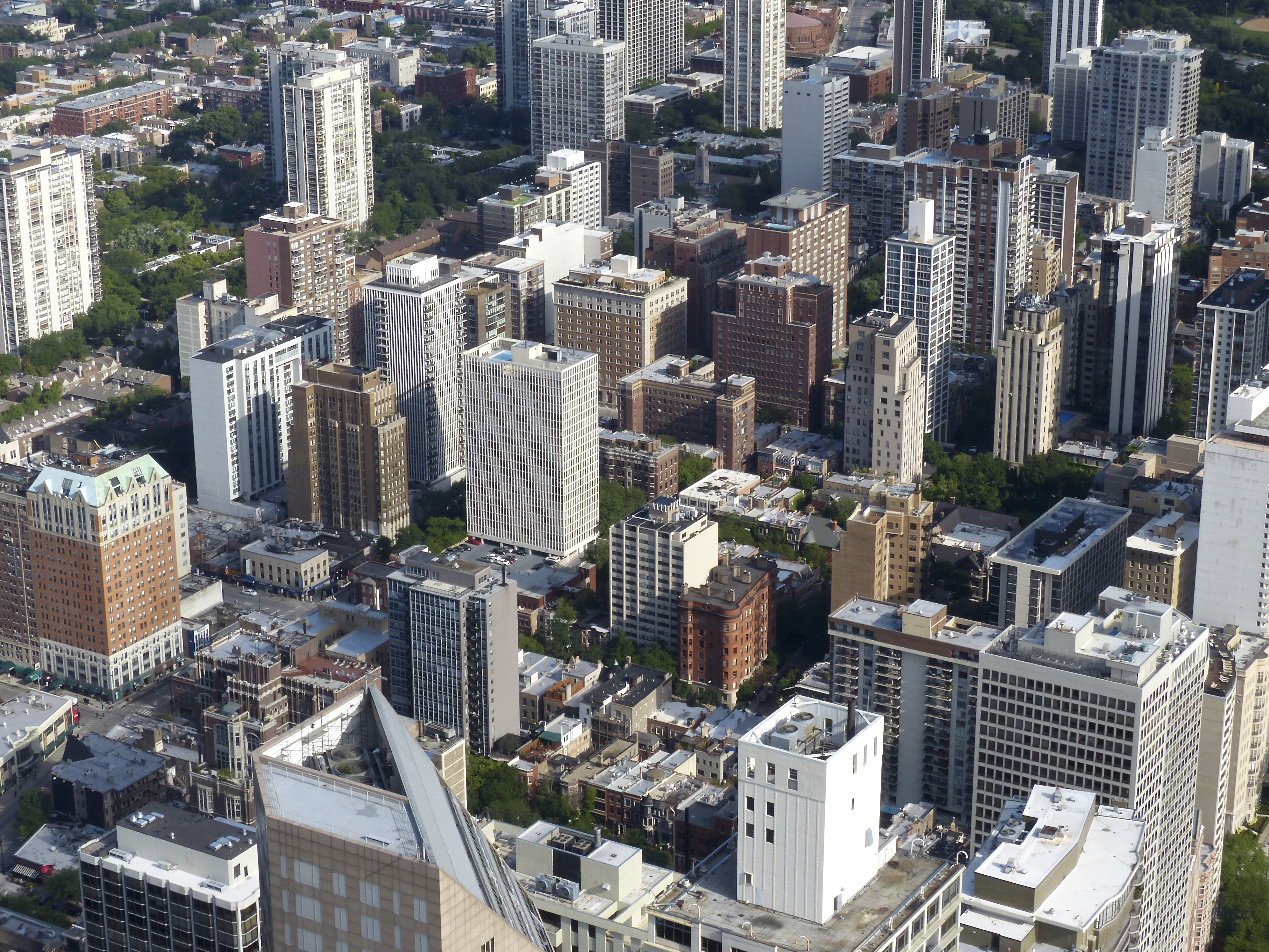 Chicago Apartment Buildings